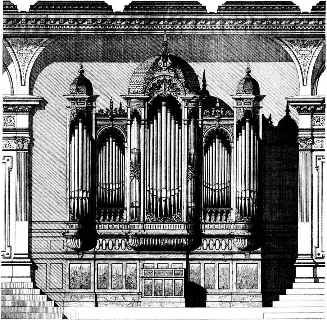 Organ, Concertgebouw, Amsterdam.